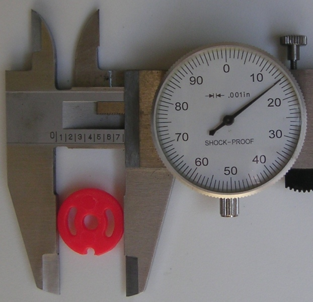 Smaller 0.815" jet disc for Jet Disc Tracer Gun